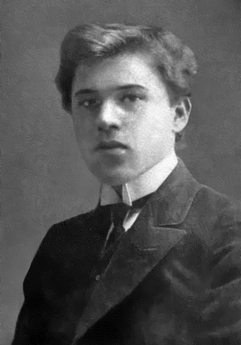 Photo of Mykhailo Drai-Khmara (1889–1939), Ukrainian poet — a victim of Soviet repression.